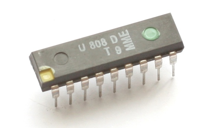 CPU MME U808 (= Intel i8008)